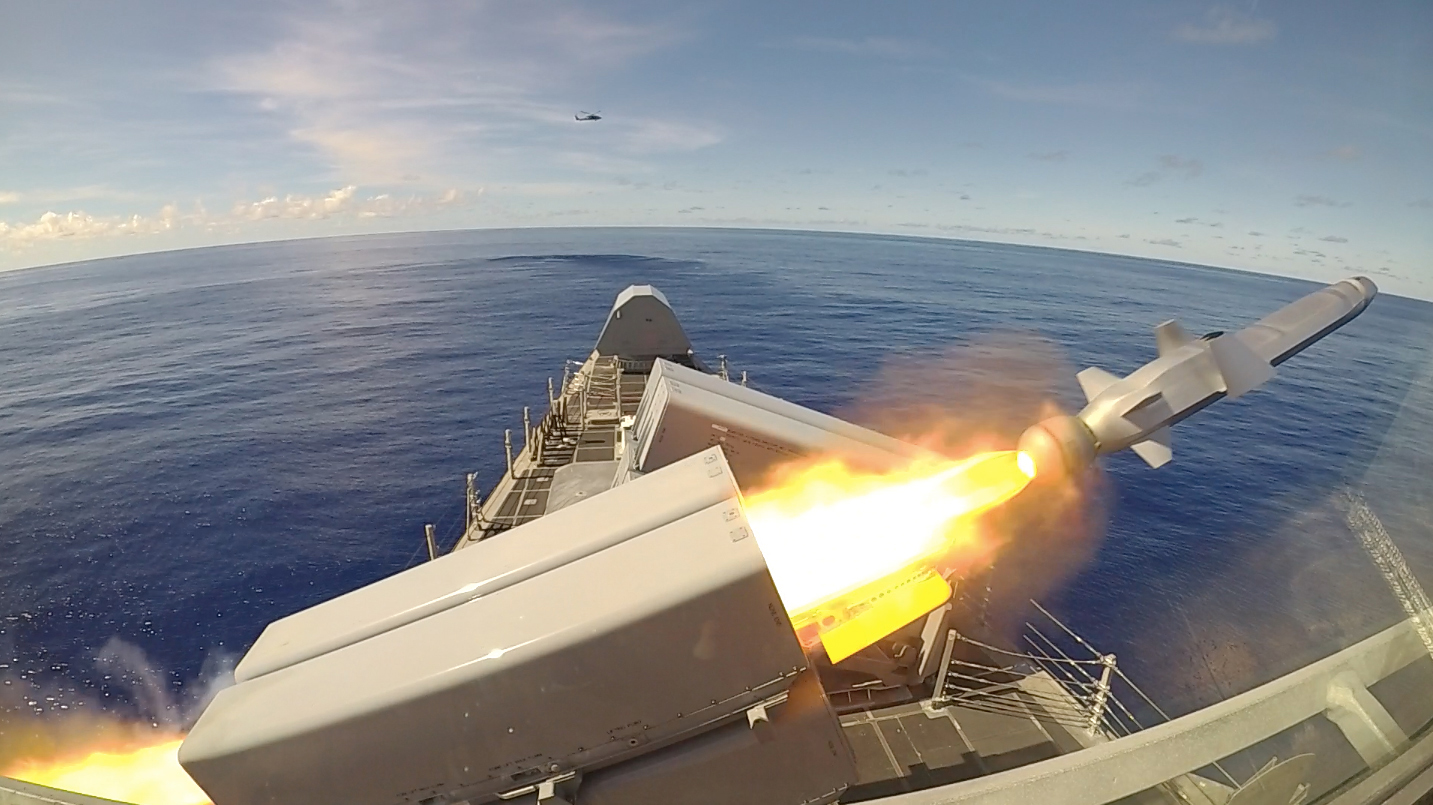 The U.S. Navy littoral combat ship USS Gabrielle Giffords (LCS-10) launches a Naval Strike Missile (NSM) during exercise "Pacific Griffin" on 2 October 2019. The NSM is a long-range, precision strike weapon that is designed to find and destroy enemy ships. Pacific Griffin is a biennial exercise conducted in the waters near Guam aimed at enhancing combined proficiency at sea while strengthening relationships between the U.S. and Republic of Singapore navies.